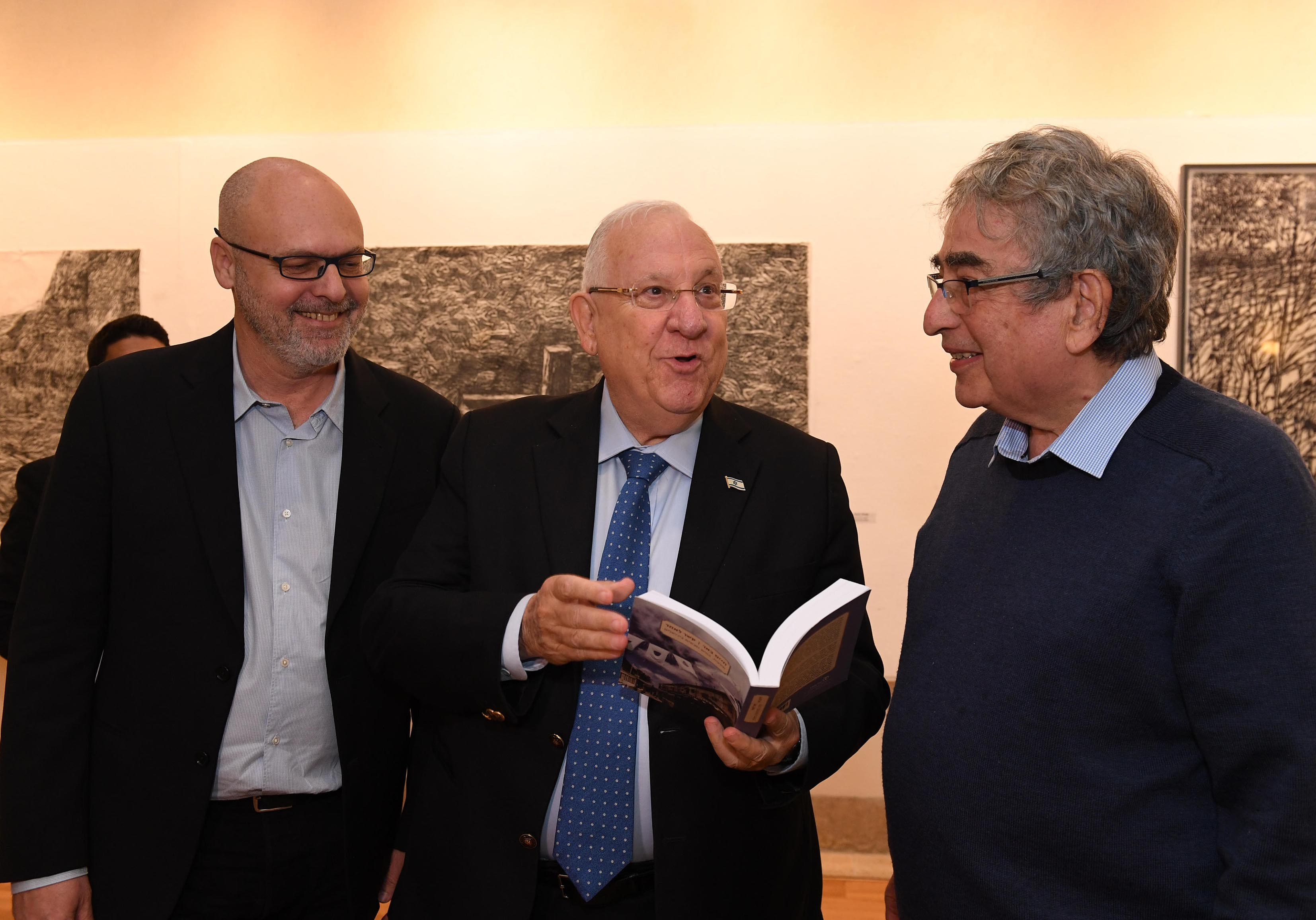 President of Israel, Reuven Rivlin, and his wife at book premiere of Haim Be'er's book "Kesher L'Achad". Thursday, January 4, 2018. Photo Credit: Mark Neyman / GPO. Depicted people: Reuven Rivlin, Haim Be'er and מוטי שוורץ Depicted place: משכנות שאננים מרכז הכנסים ע"ש קונרד אדנאואר, Jerusalem